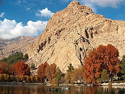 Tagh Bostan